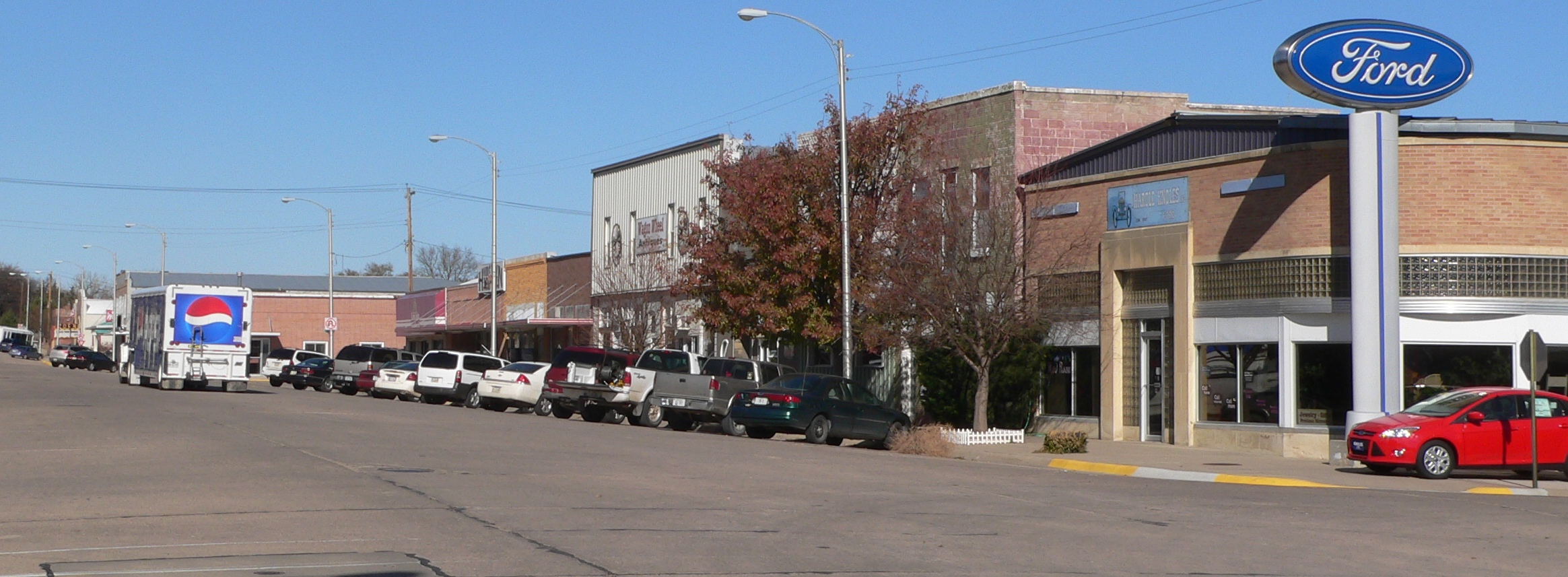 Downtown Benkelman, Nebraska.